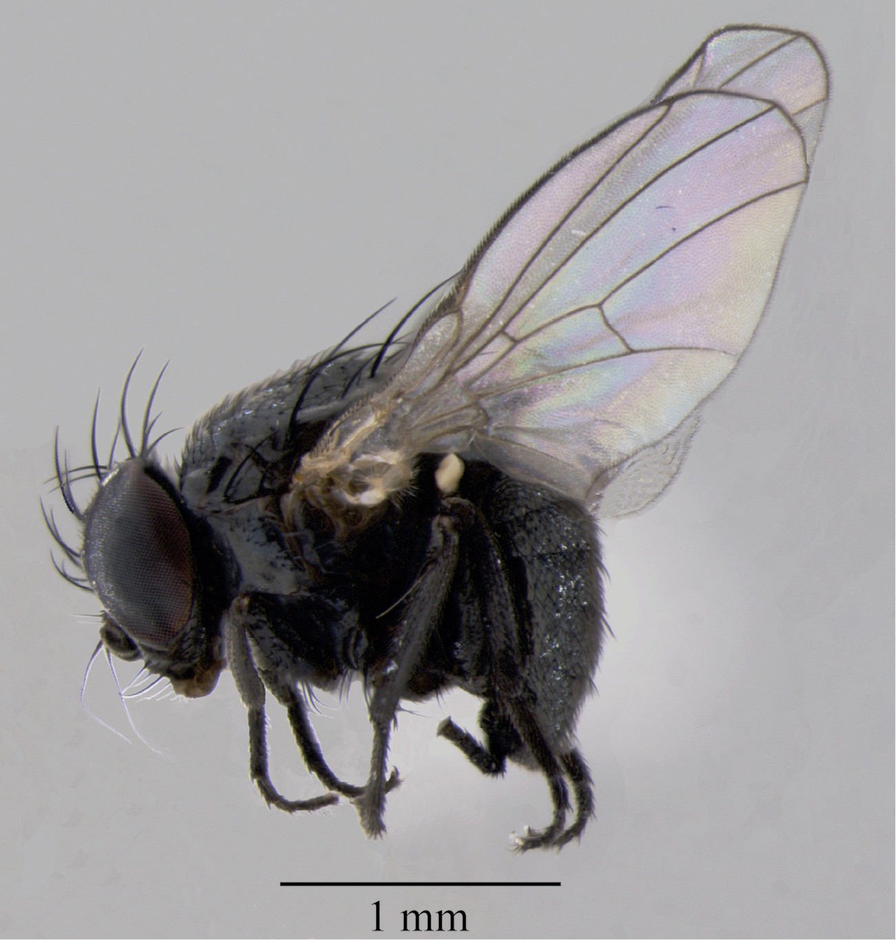 Japanagromyza inferna Spencer, male, in lateral view.